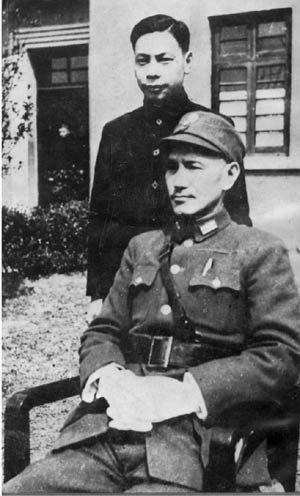 Chiang Kai-shek (front) with son Chiang Ching-kuo (rear).